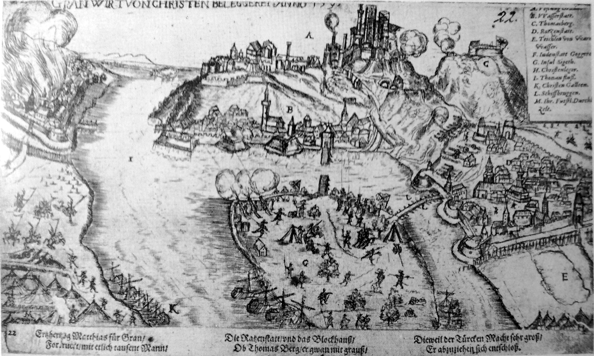 Esztergom, 1595 by Zimmermann